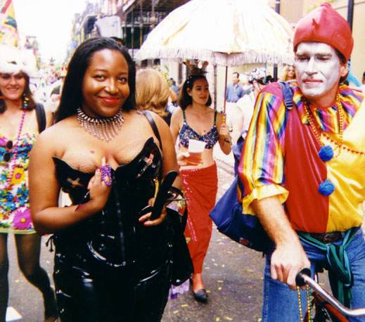 Revelers with Society of St. Anne, French Quarter, Mardi Gras Day, 1999. Photo by Infrogmation of New Orleans Previously uploaded by me to Wikipedia on 14 February, 2004.